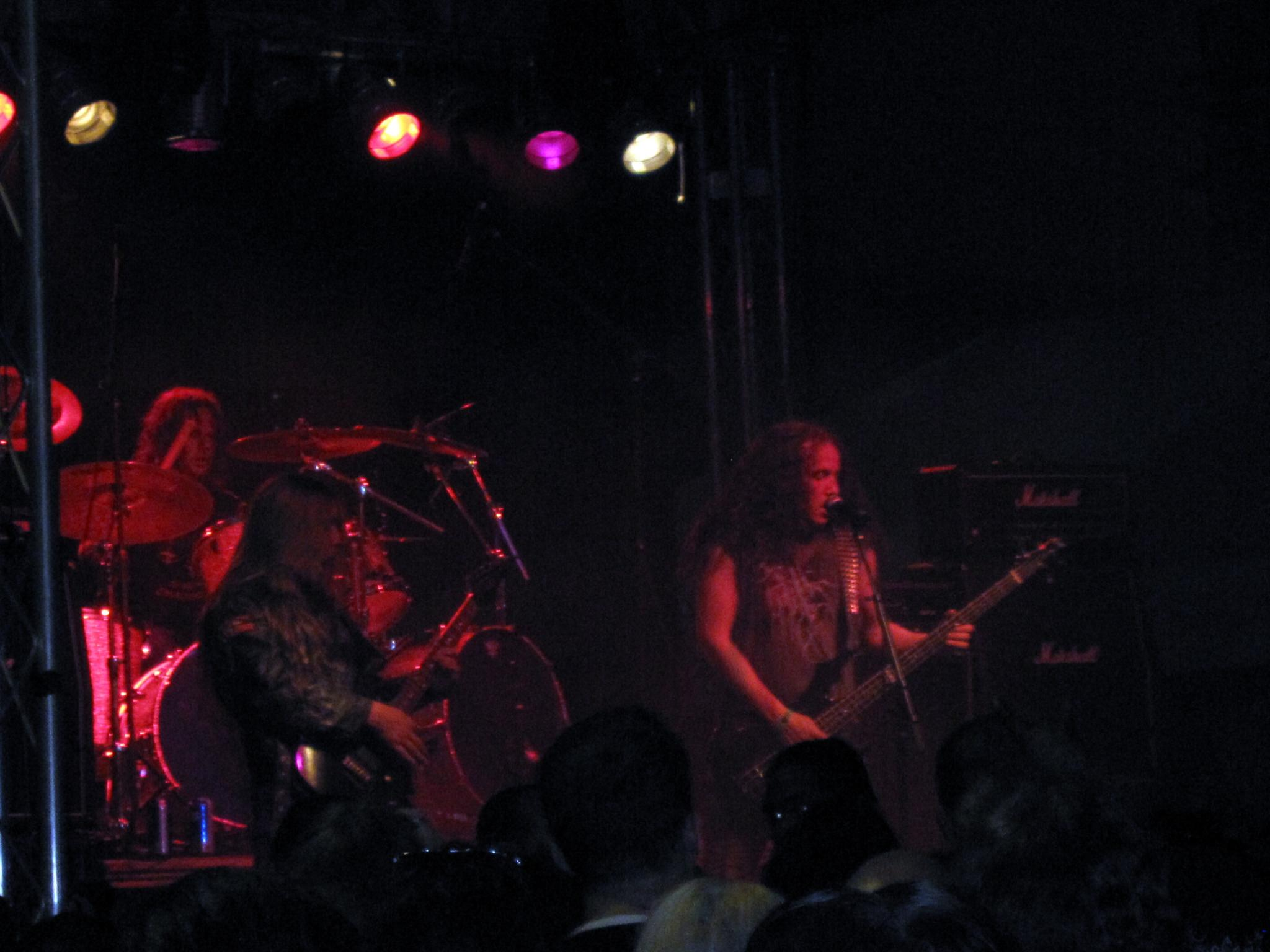 Aura Noir live at Deathfest (Baltimore) in 2009